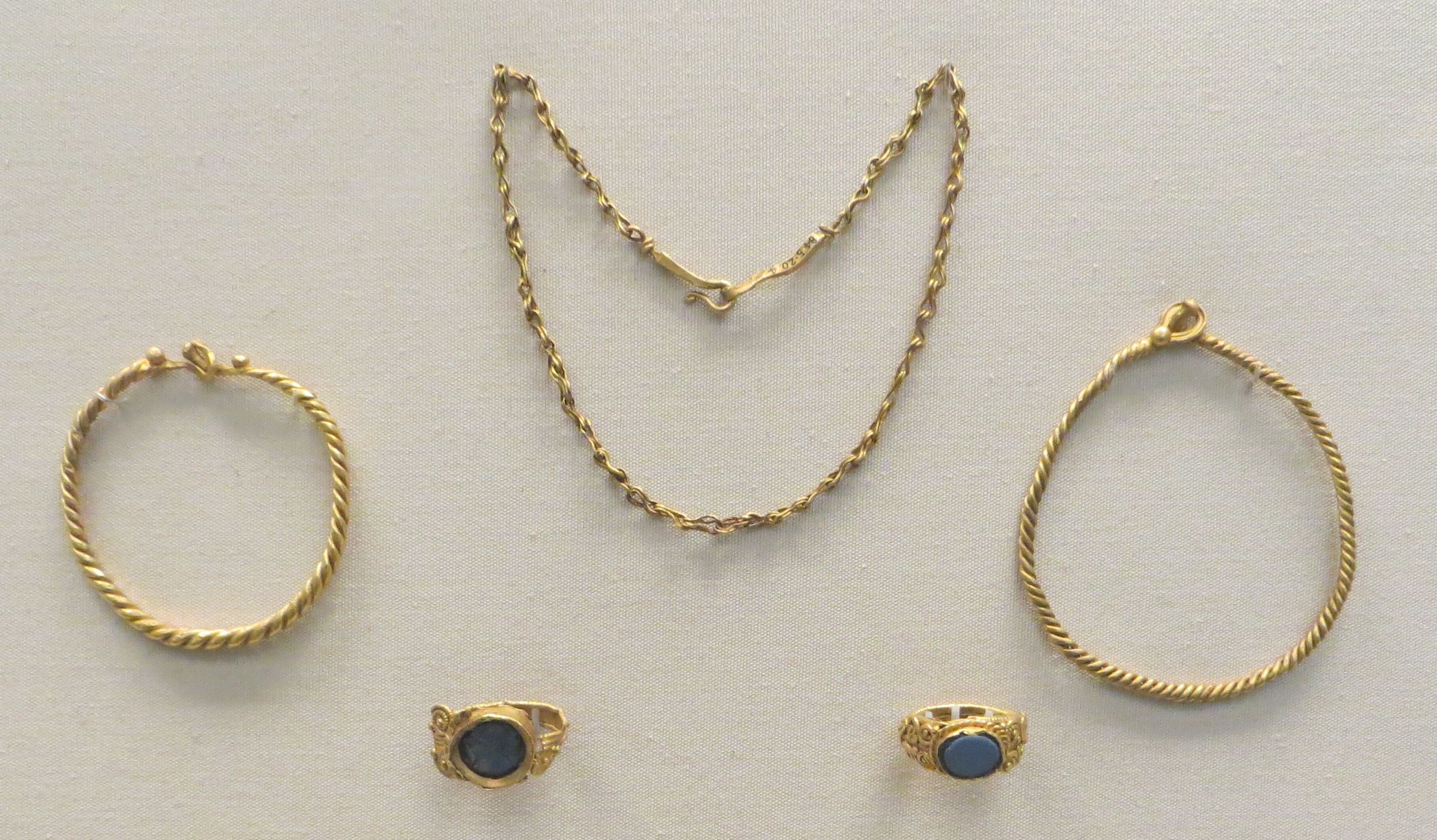 Newgrange gold hoard in the British Museum